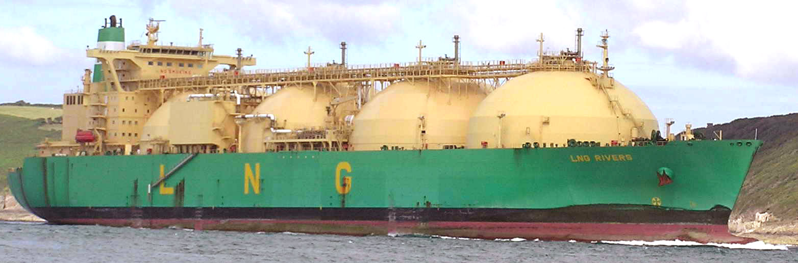 Cropped version of Image:Methanier aspher LNGRIVERS.jpg.